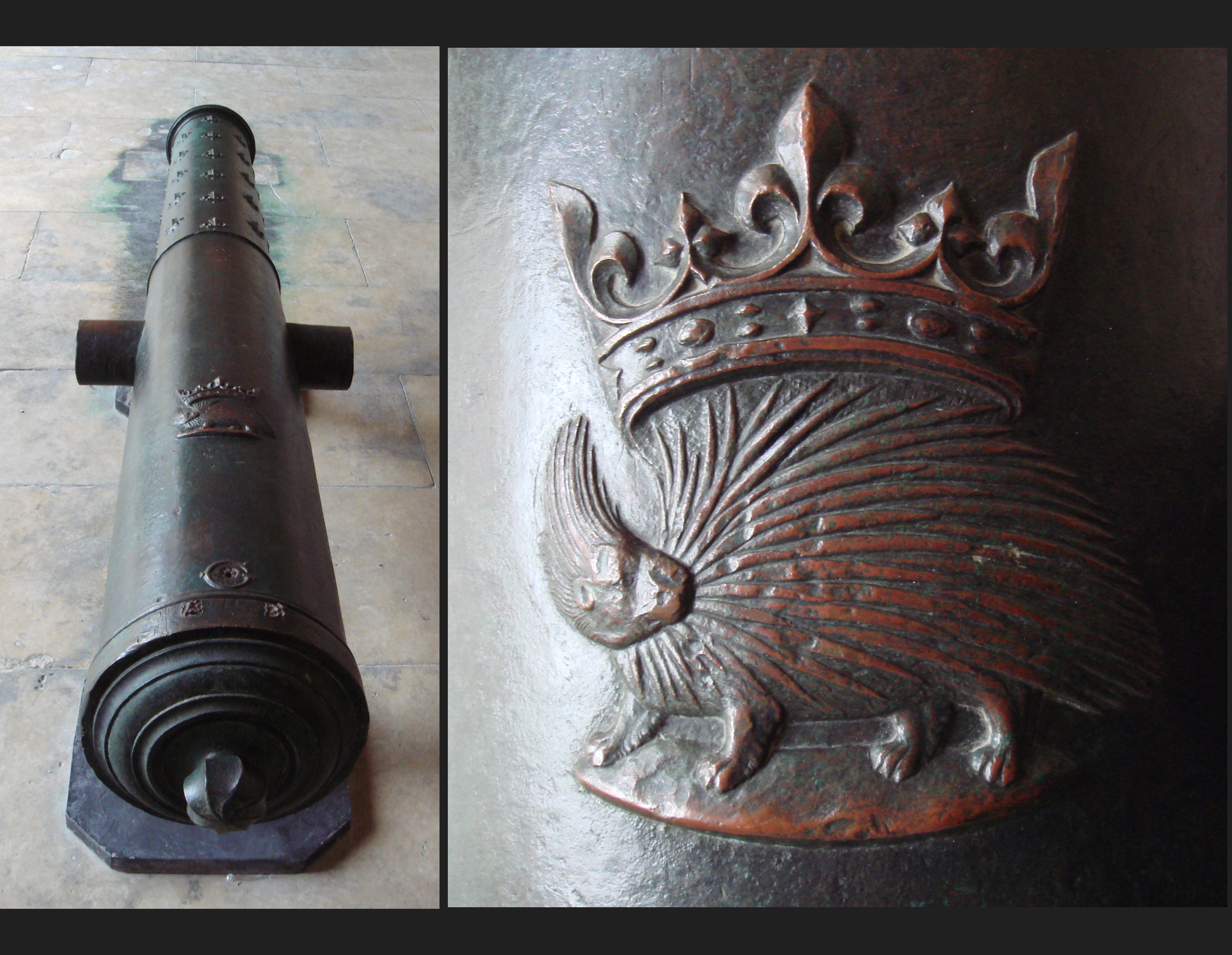 Bronze_cannon_of_Louis_XII_with_emblem_172mm_305cm_1870kg_Algiers_recovered_in_1830.